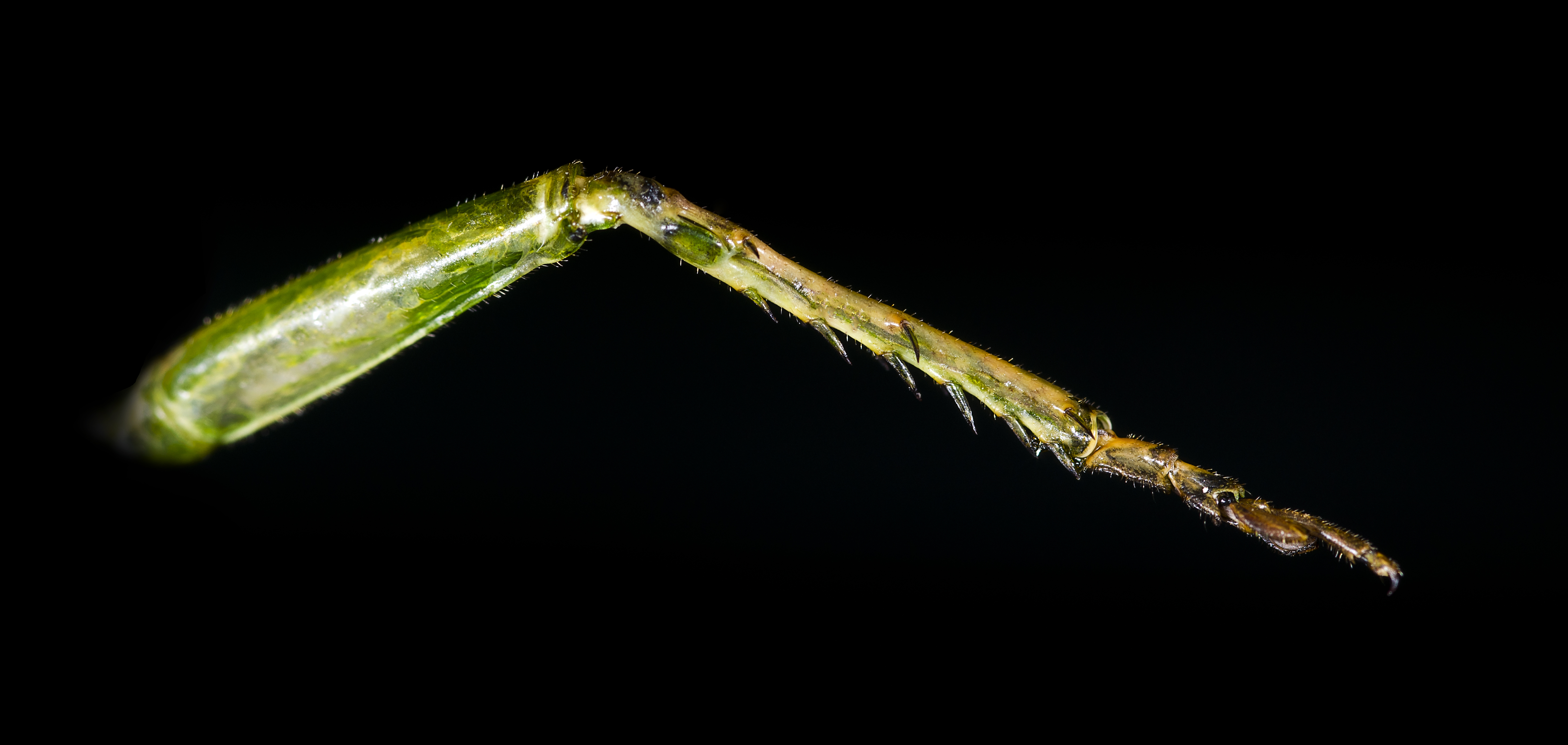 Great Green Bush Cricket (Tettigonia viridissima Linnaeus, 1758) Bubble hearing (organ of hearing) on the right foreleg